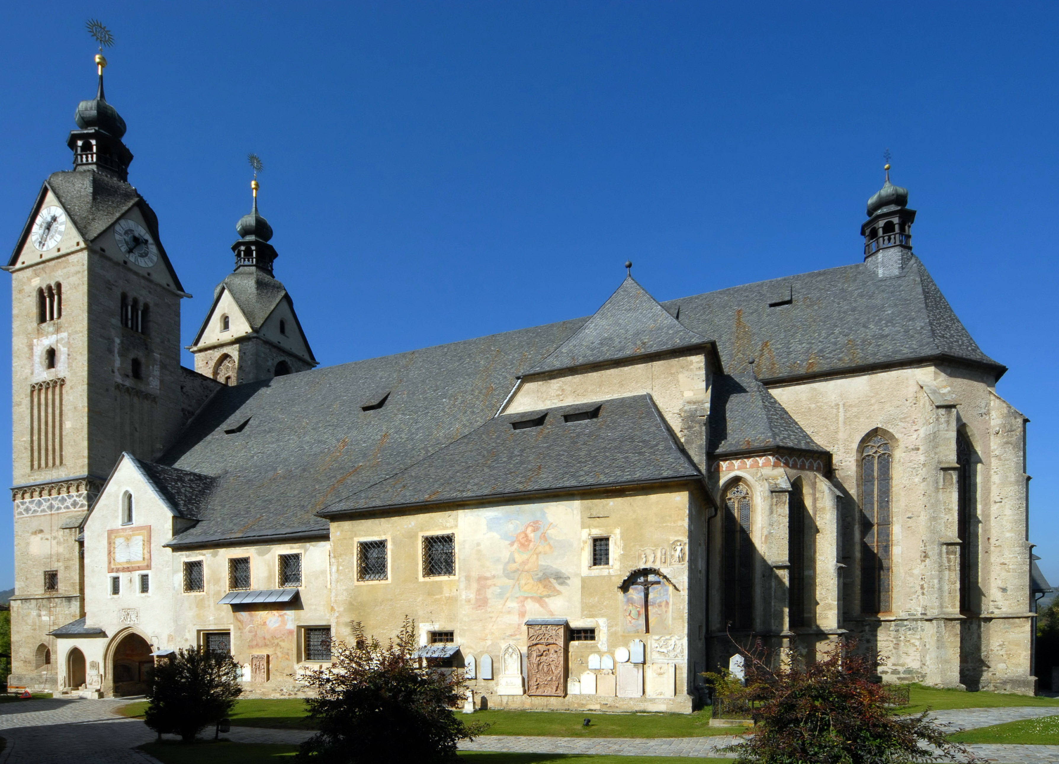 Parish and pilgrimage church Assumption Day, market town Maria Saal, district Klagenfurt Land, Carinthia, Austria, EU